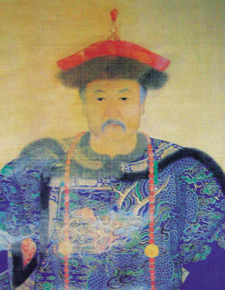 Fan WenCheng